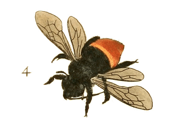 A plate of Eufriesea surinamensis by Dru Drury